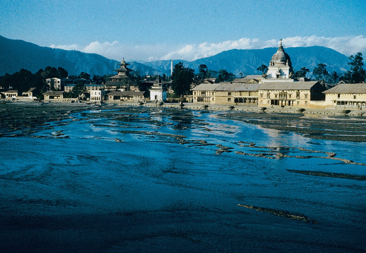 The Bagmati river is the largest river flowing through the Kathmandu valley and separates Kathmandu city from the district of Lalitpur. The Bagmati originates from the Shivapuri hill (2650m), 25 km north of Kathmandu. According to an ancient tale, the river is believed to have originated from the laughter of Lord Shiva. It has a vital cultural and religious role and is used for ritual bathing and cremation, thus purifying the people spiritually and physically. Photo: Toni Hagen Stiftung Schweiz-Nepal (Inheritance Toni Hagen), Nepal